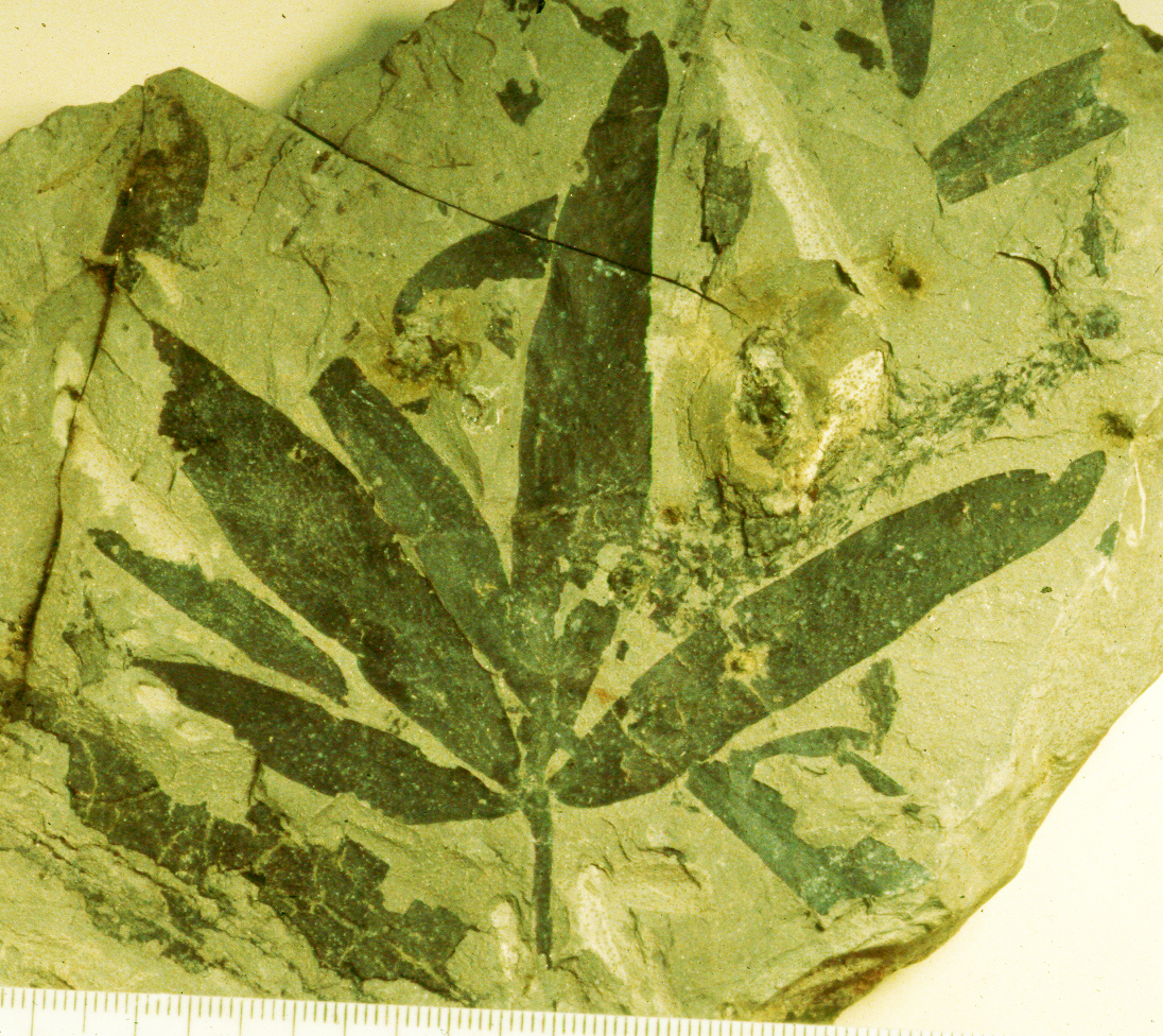 Sagenopteris phillipsi Natural History Museum v18596 Retallack 1980